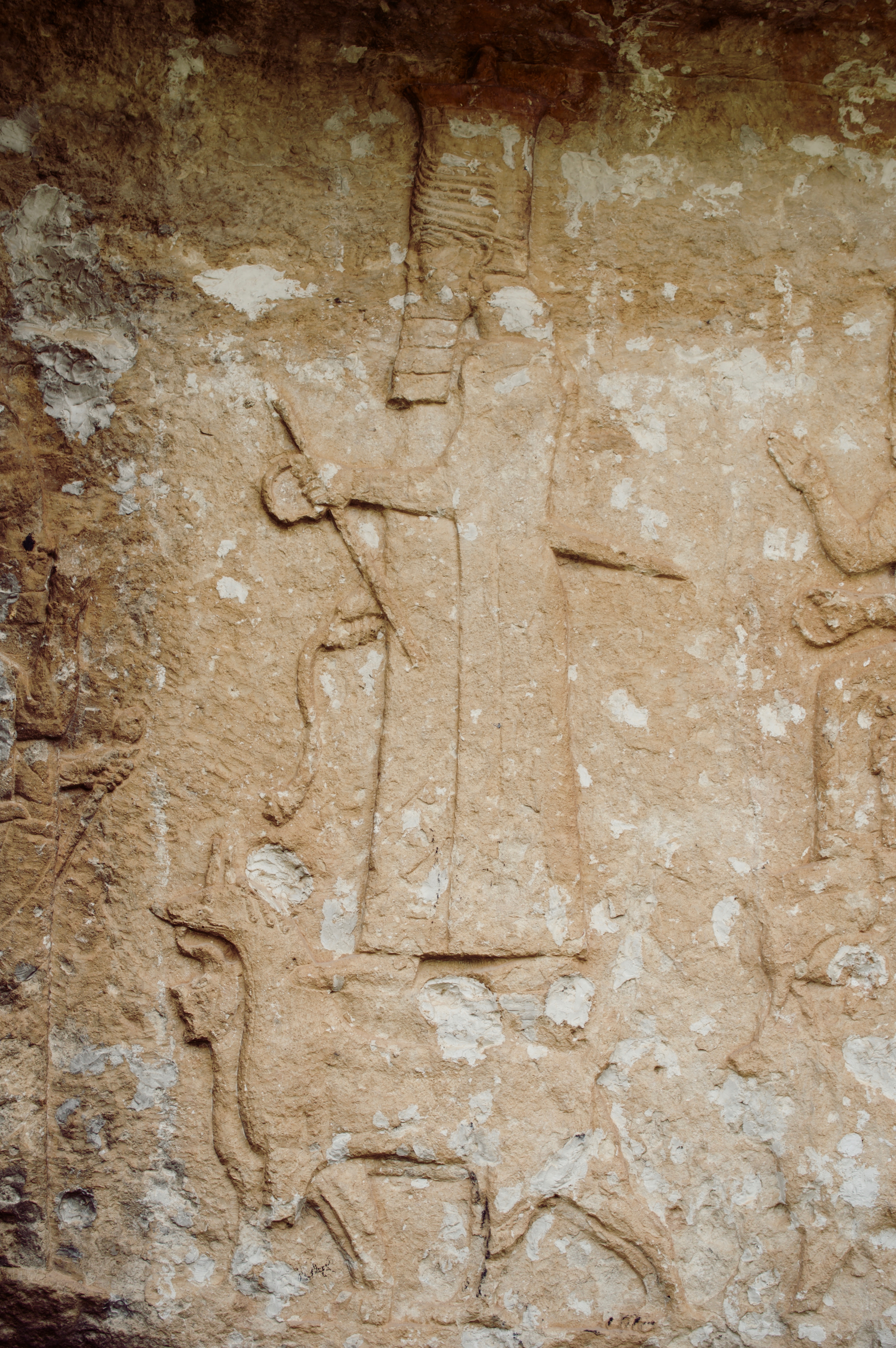 Neo-Assyrian archaeological Halamata reliefs overlooking modern-day Duhok, Kurdistan Region of Iraq. Depicts a procession of gods in multiple identical panels. Overlooks the Malta archaeological mound.